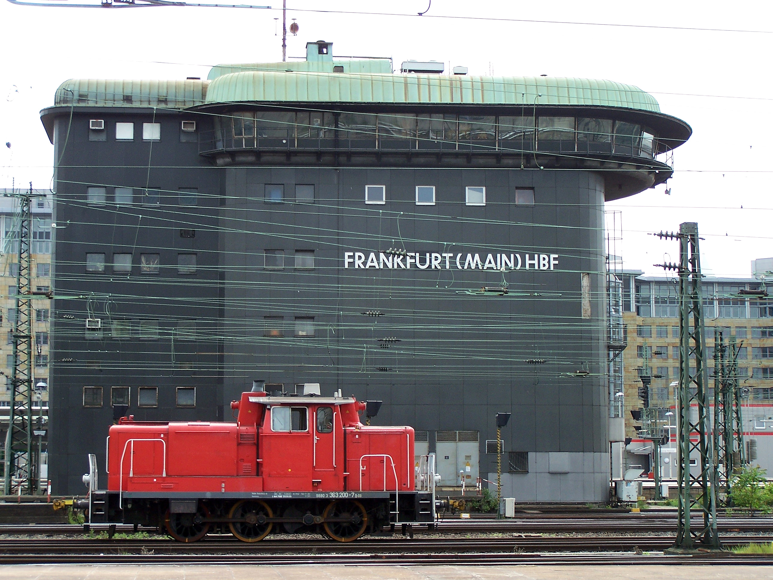 Diesel locomotive 363 200 at the Frankfurt Central Station in Frankfurt am Main-Bahnhofsviertel in front of the former central signal box